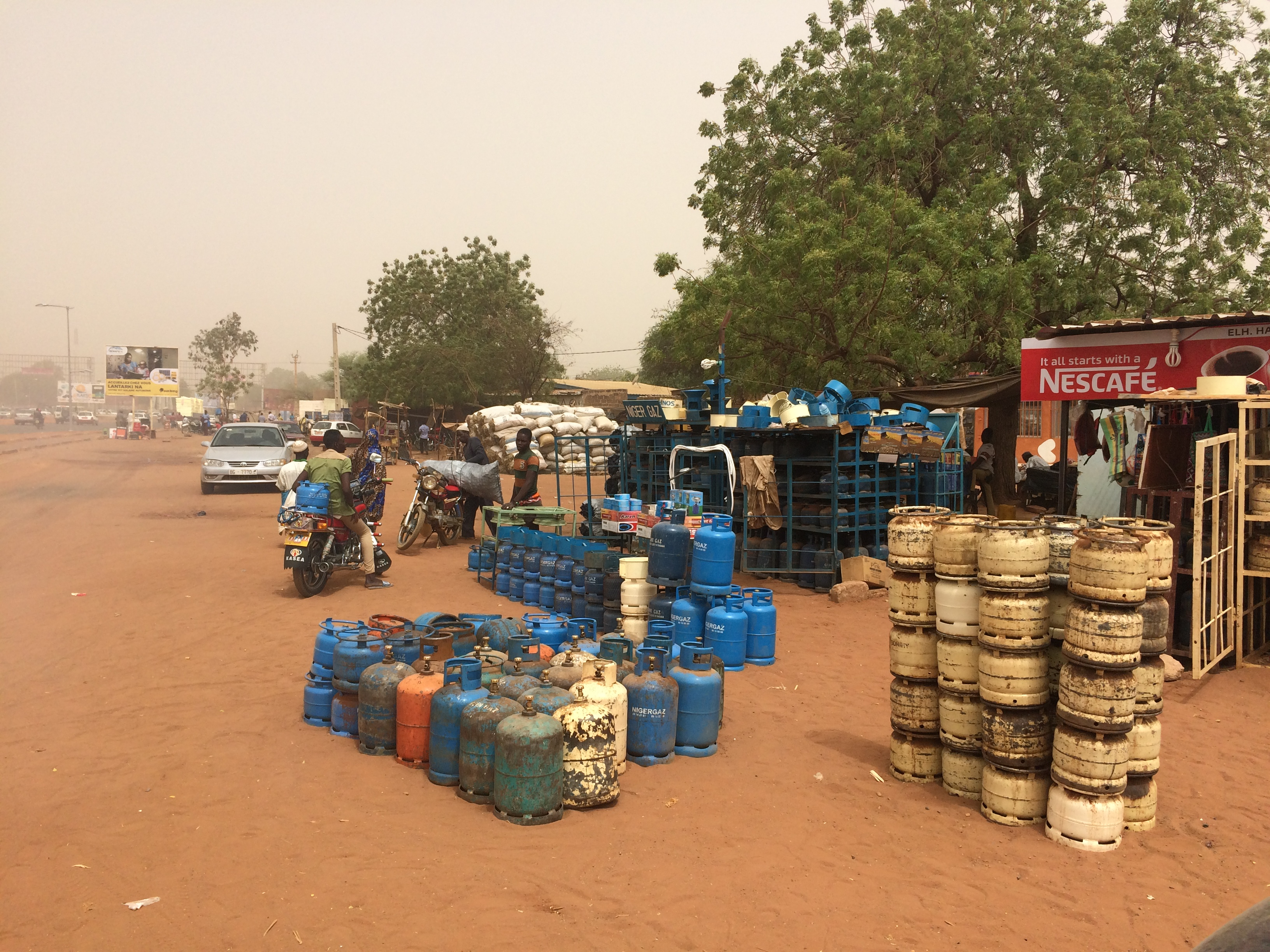 Sale of gas bottles along the Boulevard du 15 Avril (April 15 Boulevard, Rue CI-2, Cités/Cité Fayçal neighborhood), Niamey, Niger.